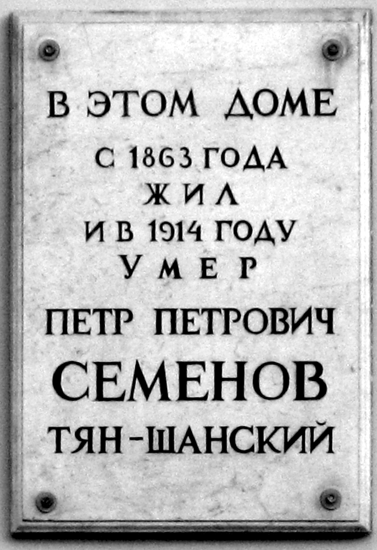 Marble plaques. 8-line, building 39, Vasilievsky Island, Saint-Petersburg, Russia. The title on the memorial plaque: "In this building Pyotr Semyonov-Tyan-Shansky live from 1863 and died in 1914."